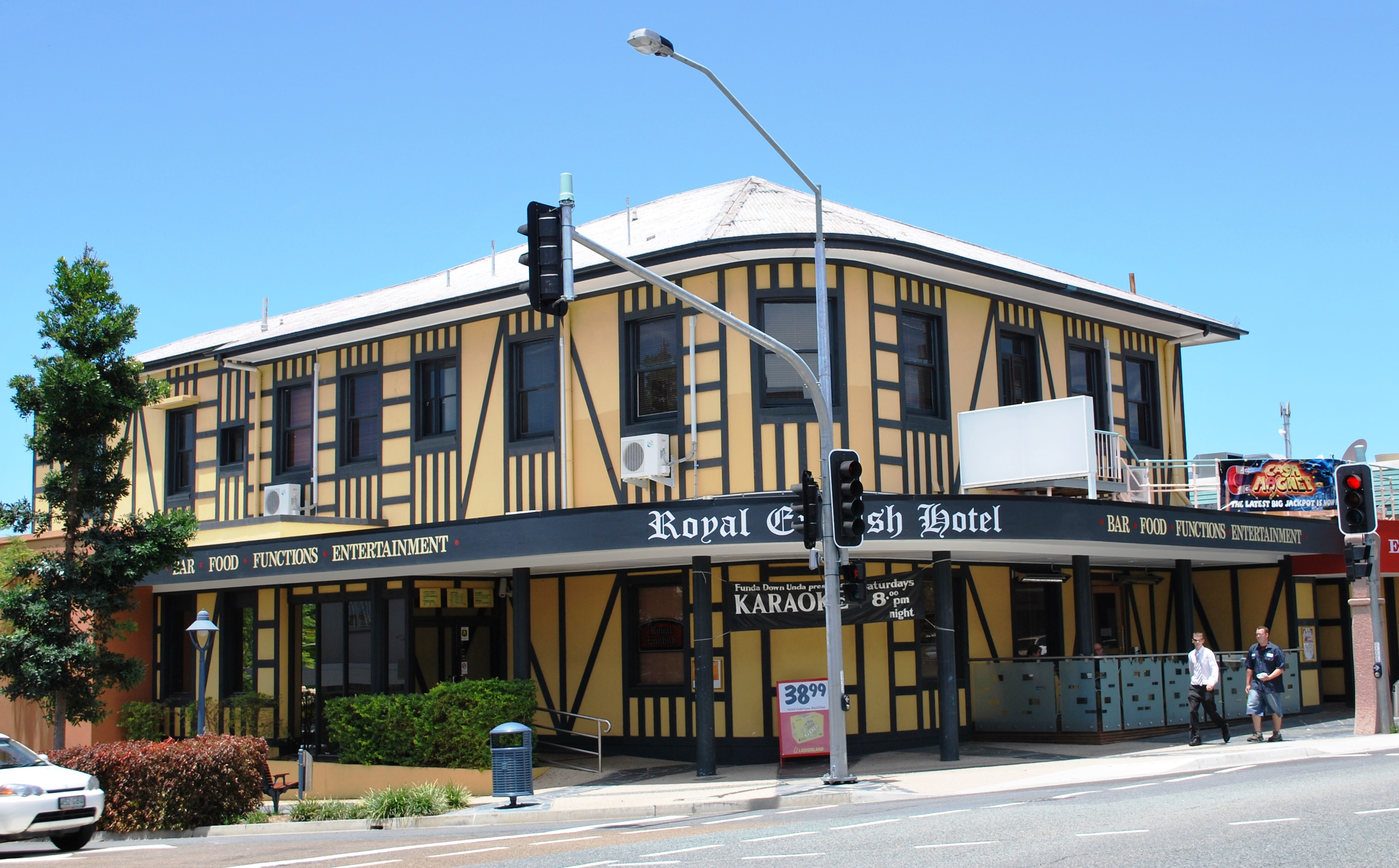 Royal English Hotel at Nundah, Queensland